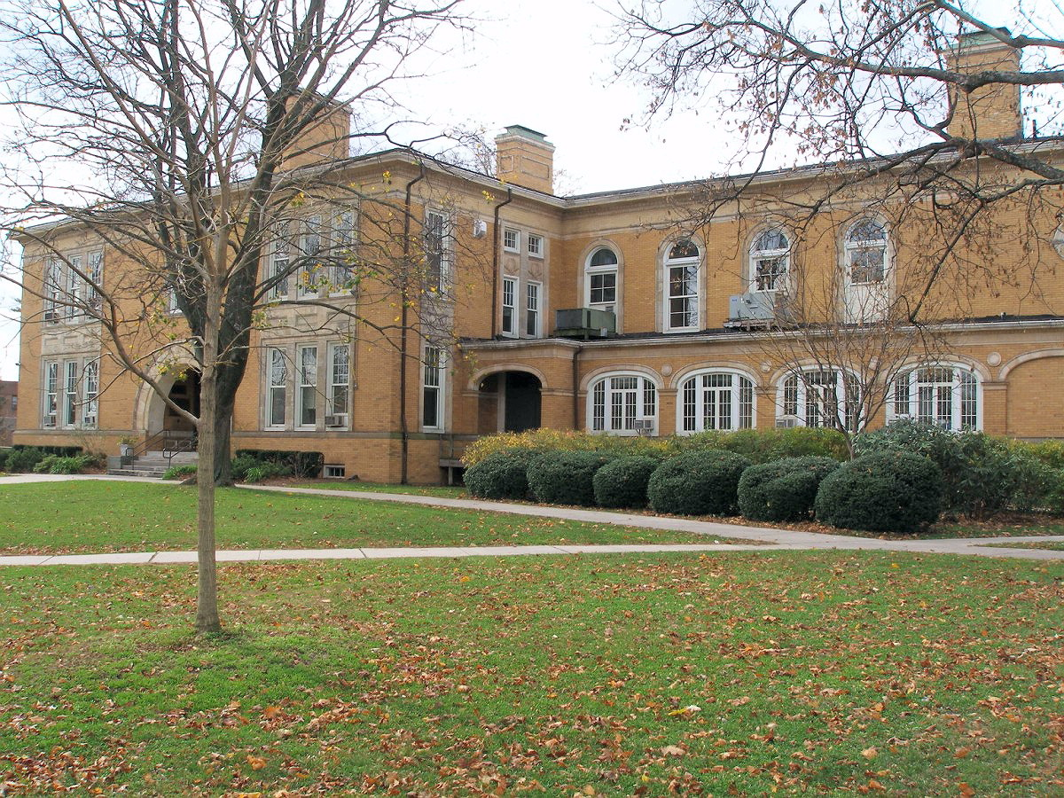 Greenwich (Conn.) Board of Education (Havemeyer Building)